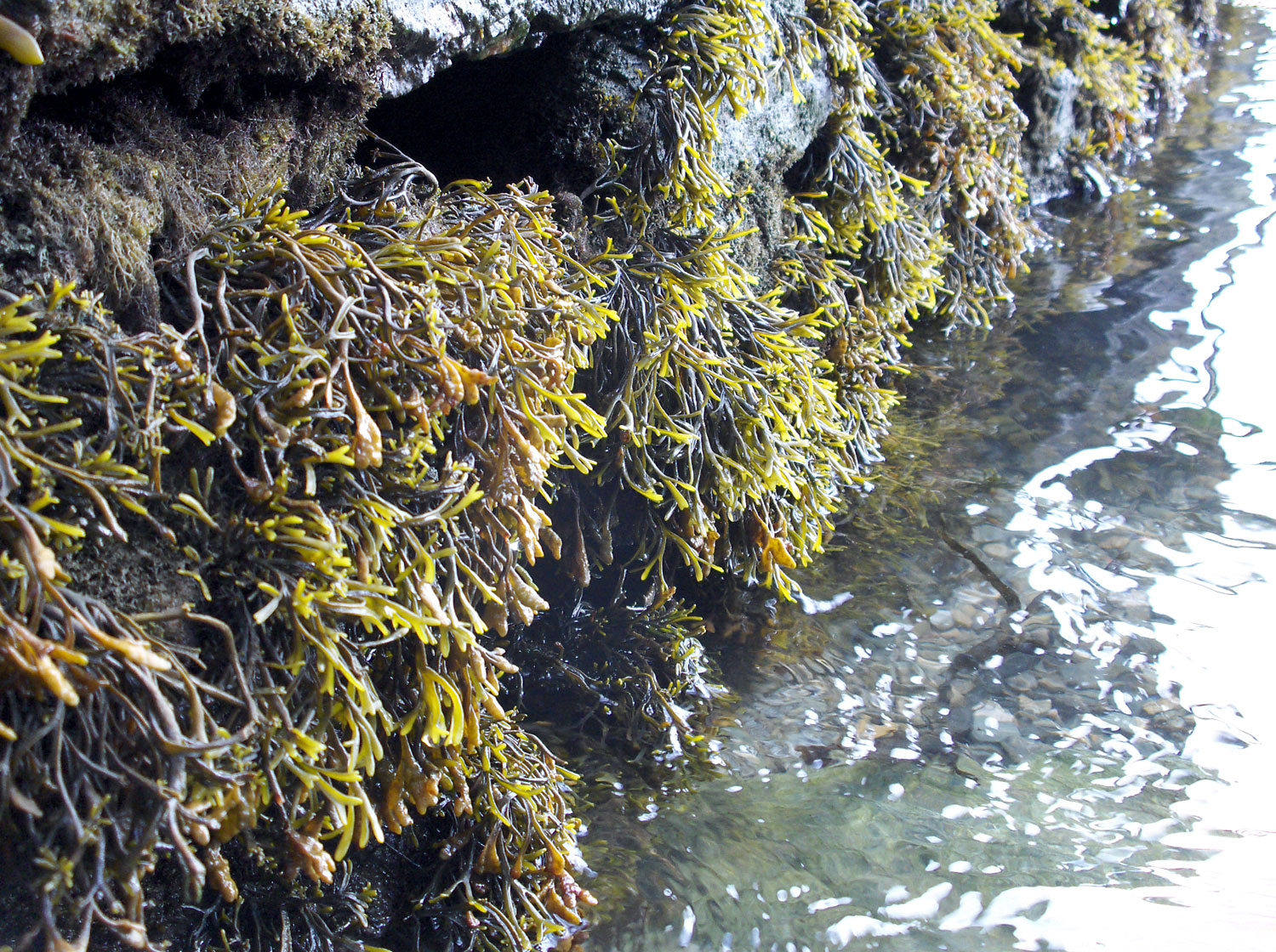 Pelvetia canaliculata growing on a slipway in the Menai Strait